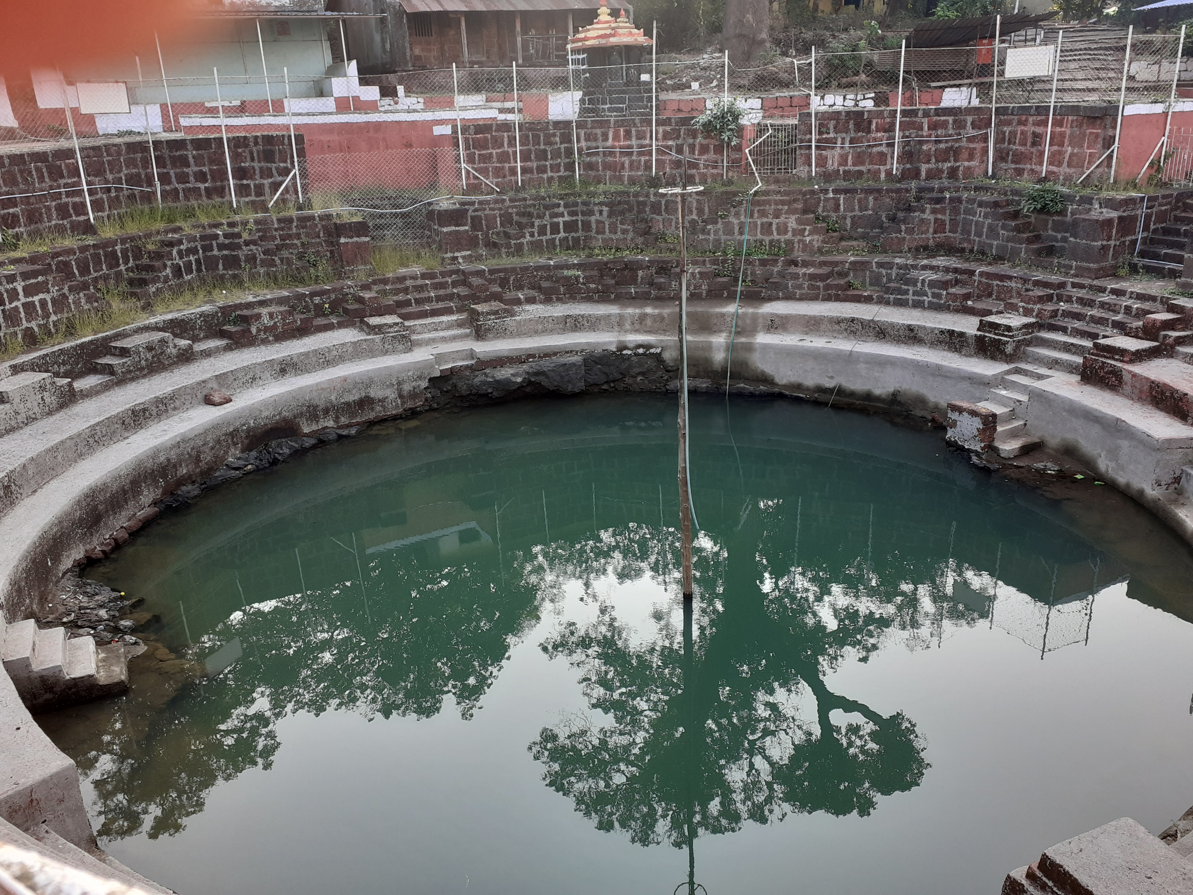 Water storage in winter